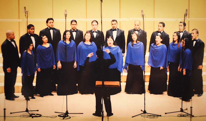 Bela Bartok International Choir Competition